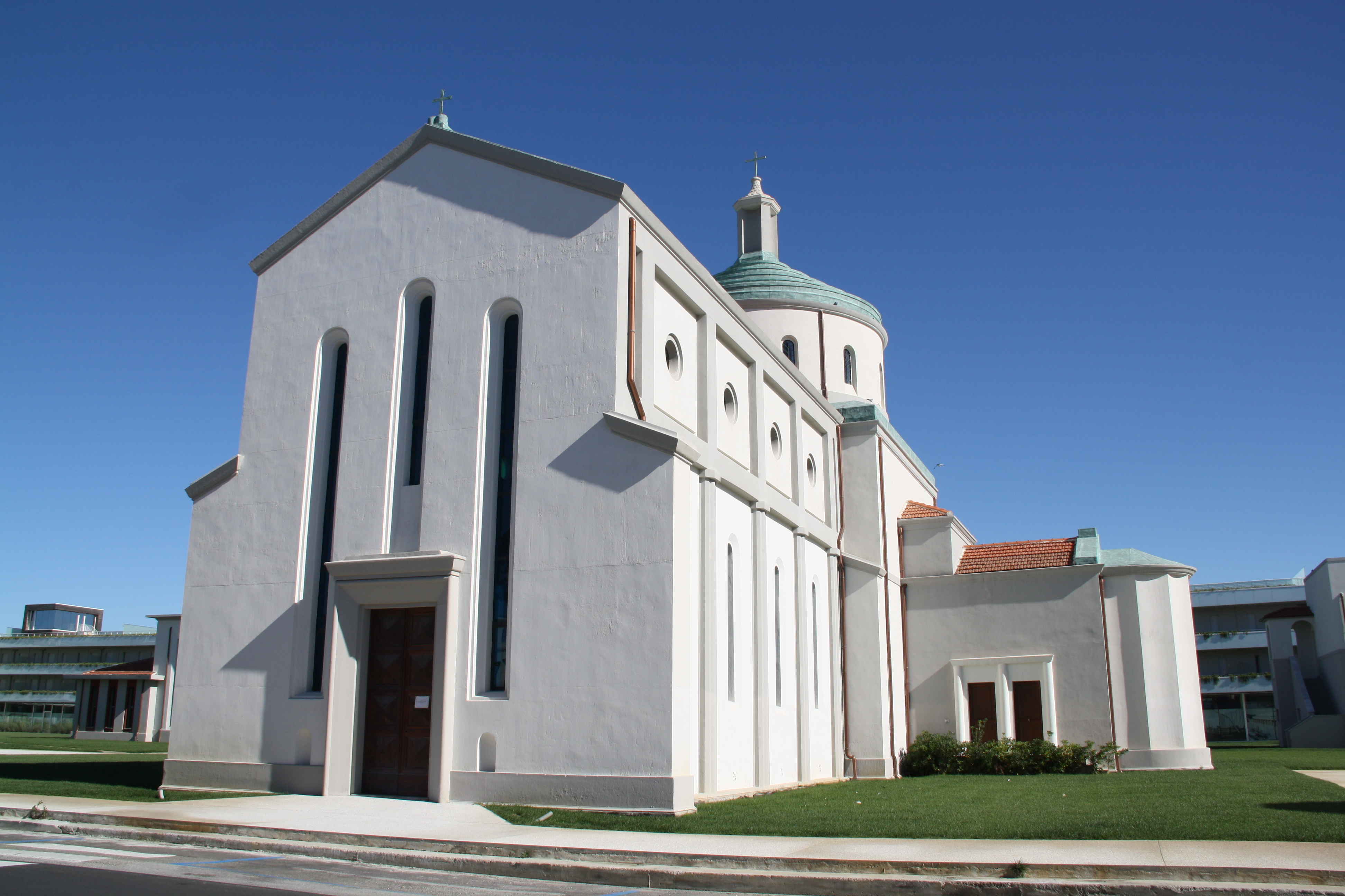 Italy, Tuscany, Calambrone, The church of Santa Rosa recently restored and open to the faith.